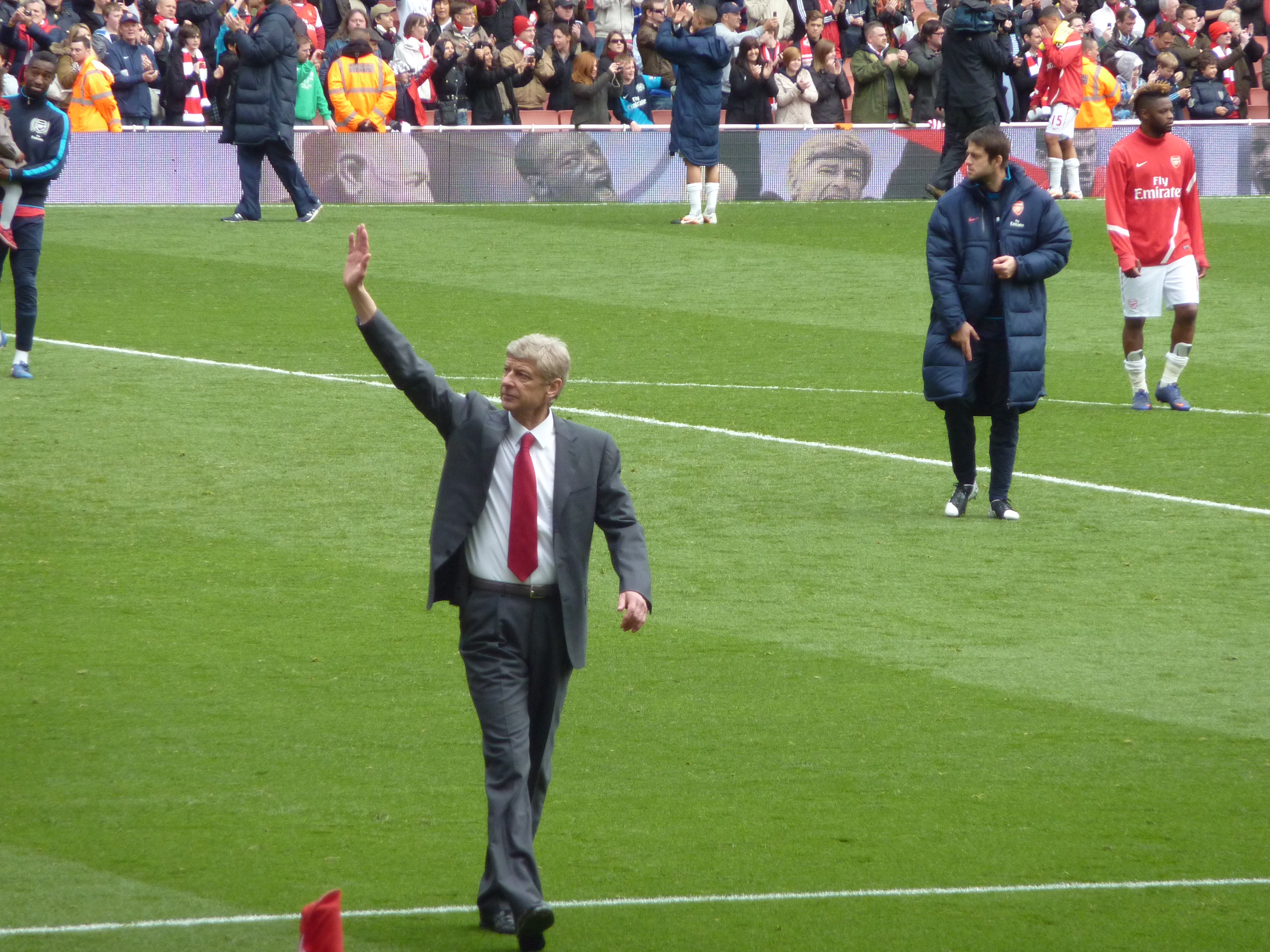 Arsene Wenger during 2011/2012 lap of honour.